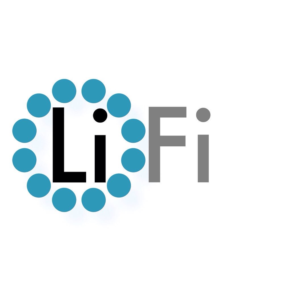 Light Fidelity (Li-Fi) Official Logo